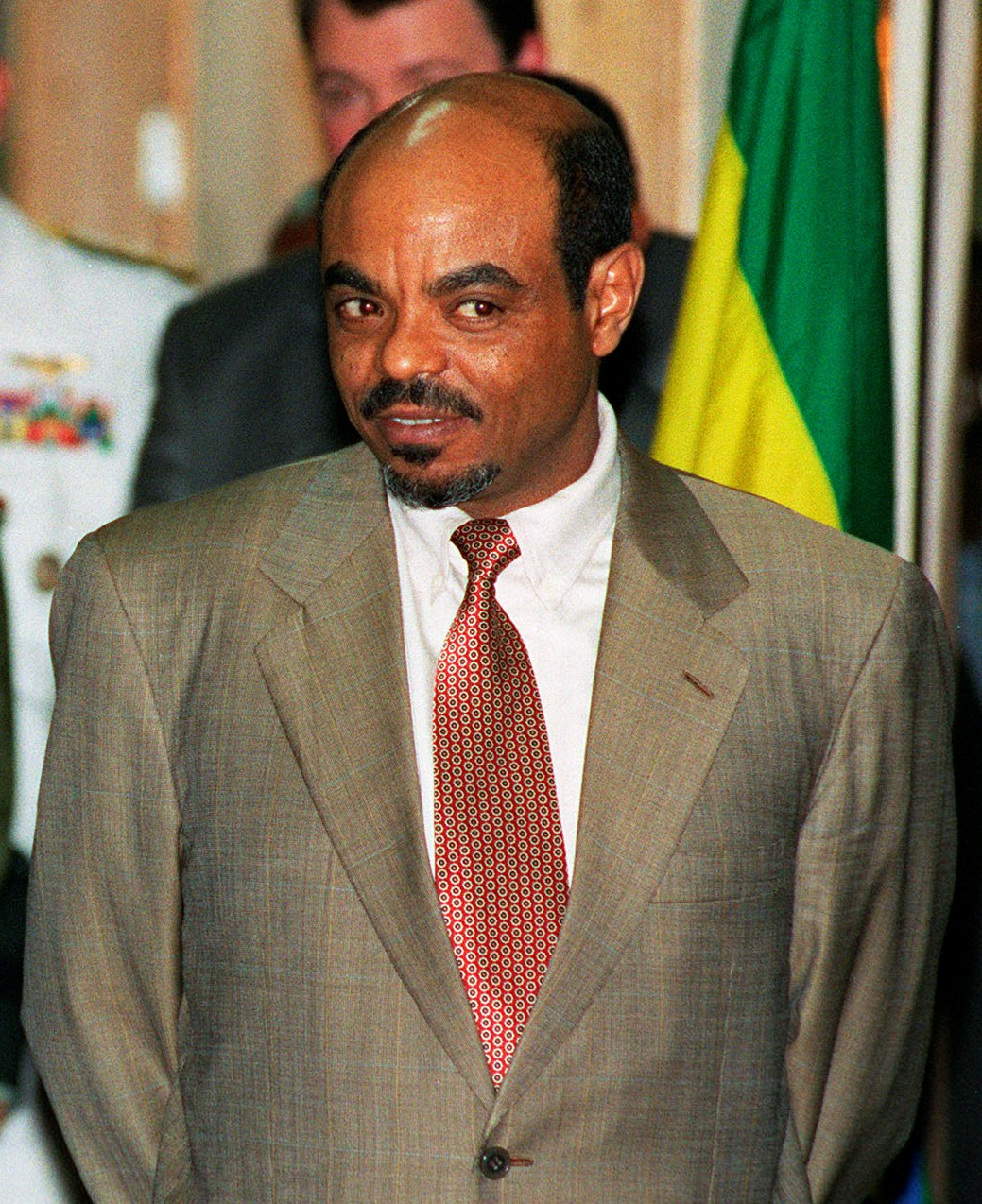 Ethiopian Prime Minister Meles Zenawi, public domain image from defenselink.mil